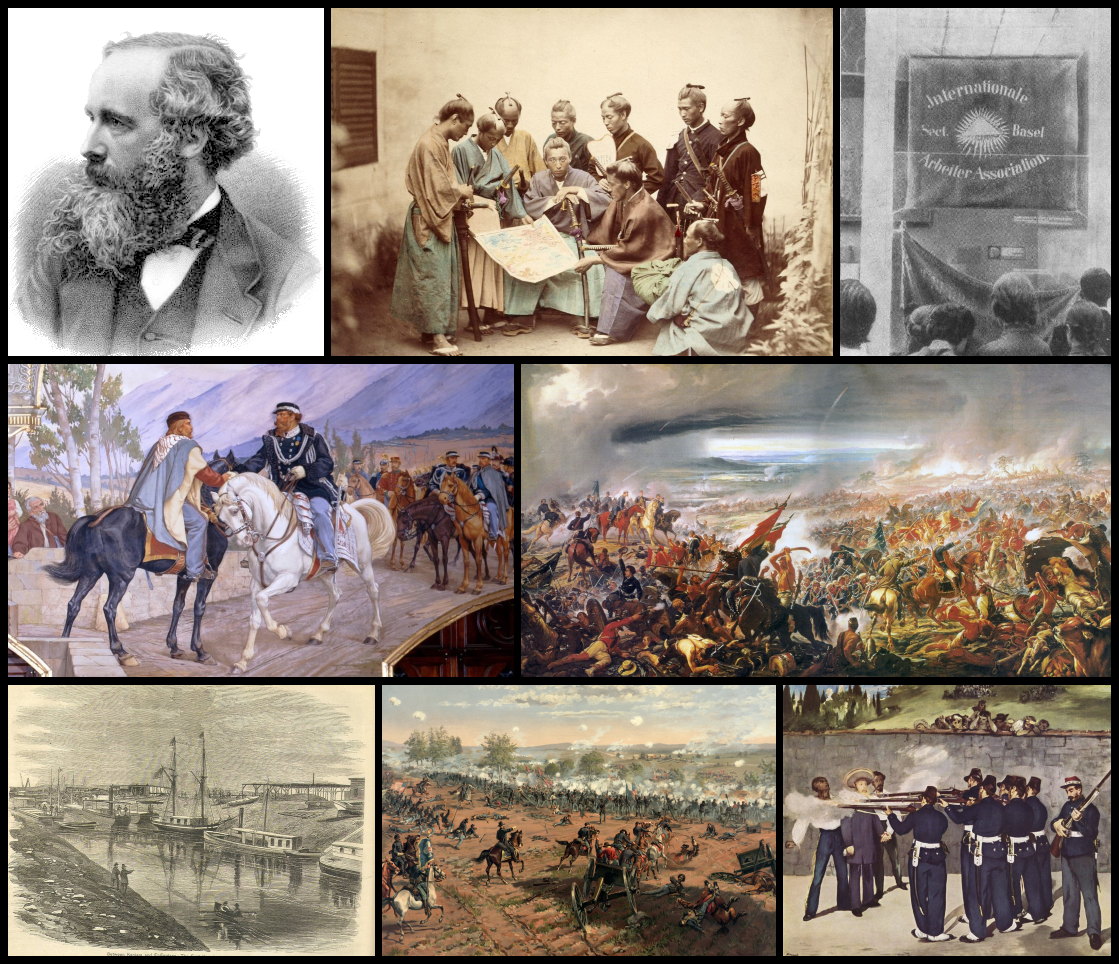 A montage of notable events in the 1860s